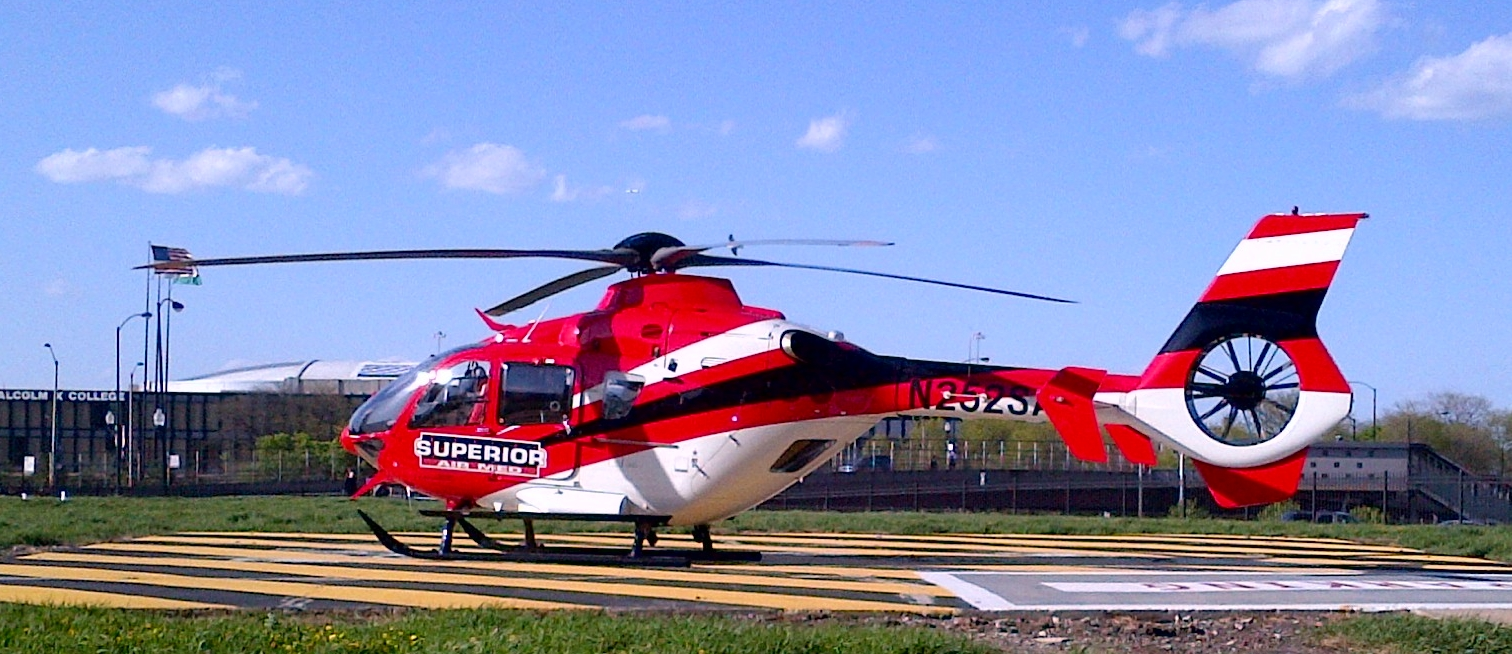 A Eurocopter EC-135 parked at Rush University Medical Center.